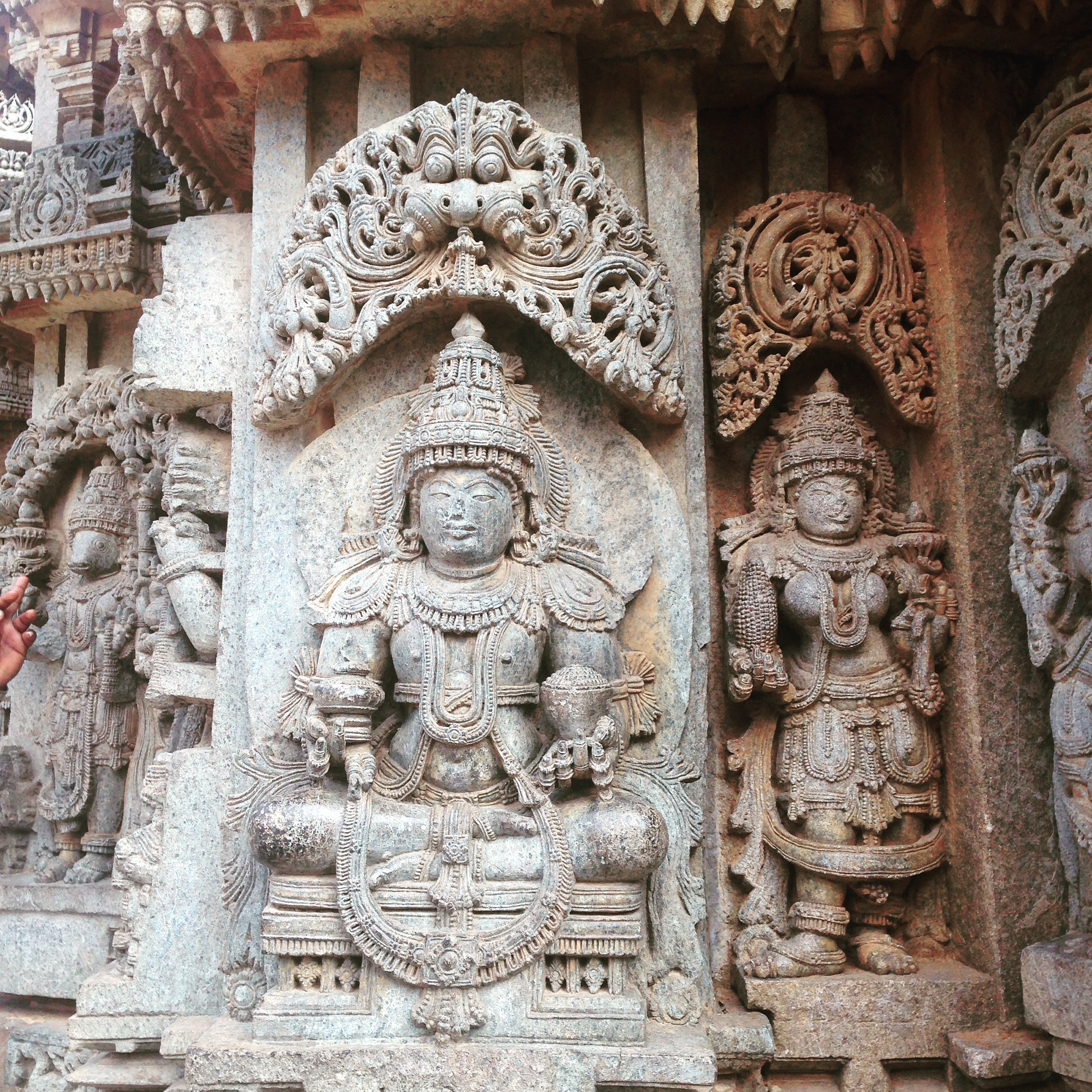 Photograph of the outer wall of the Somanathapura temple showing Dhanavantri, the ancient Hindu god of medicine.